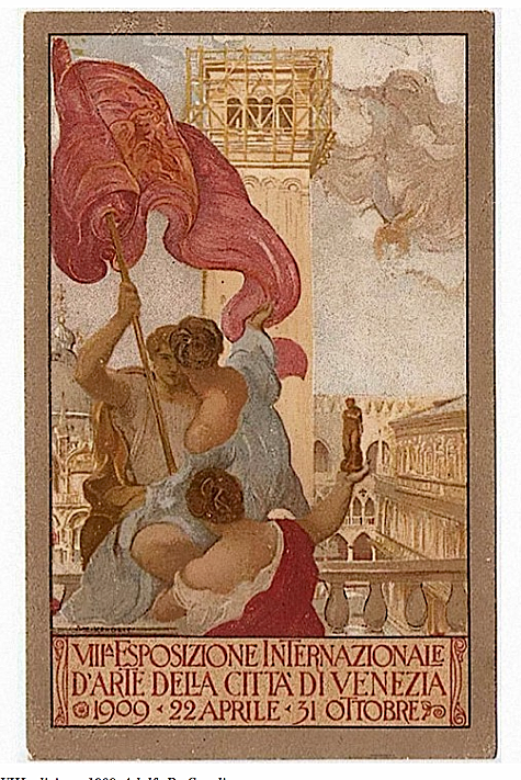 Poster of the 8th Esposizione Internazionale d'Arte della Città di Venezia [Biennale of Venice].